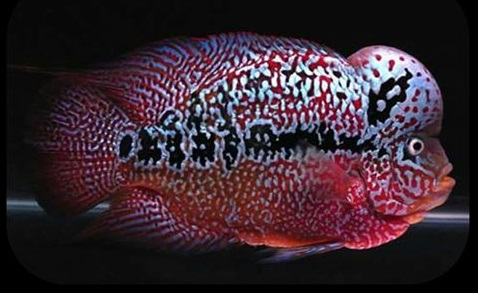 Grown adult kingkamfa flowerhorn with very nice body, pearl and kok